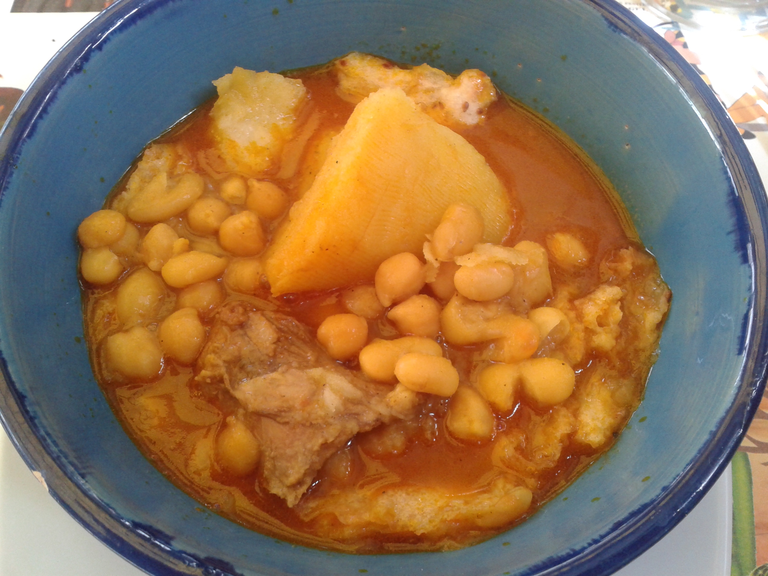 "Bozbaş" or "Bozbash" from Iranian (Azeri) cuisine. (Some Azeris in Turkey, for example in Iğdır, and elsewhere (parts of Iran and Azerbaijan) call "piti" as "bozbaş". (Whereas in Kars it is "piti".) I ate this dish at an Iranian Azeri restaurant in Ankara. It is very similar to the "piti" or "bozbaş" we have in Turkey and Azerbaijan but I noticed that, other than chickpeas, they use dried white beans and they do not use the herb (what we call "sarıkök") that gives the dish its greenish yellow colour. Ah, they gave me something like a mortar handle or hammer, with which I was supposed to mash the food. I did not. I had a nice lunch.